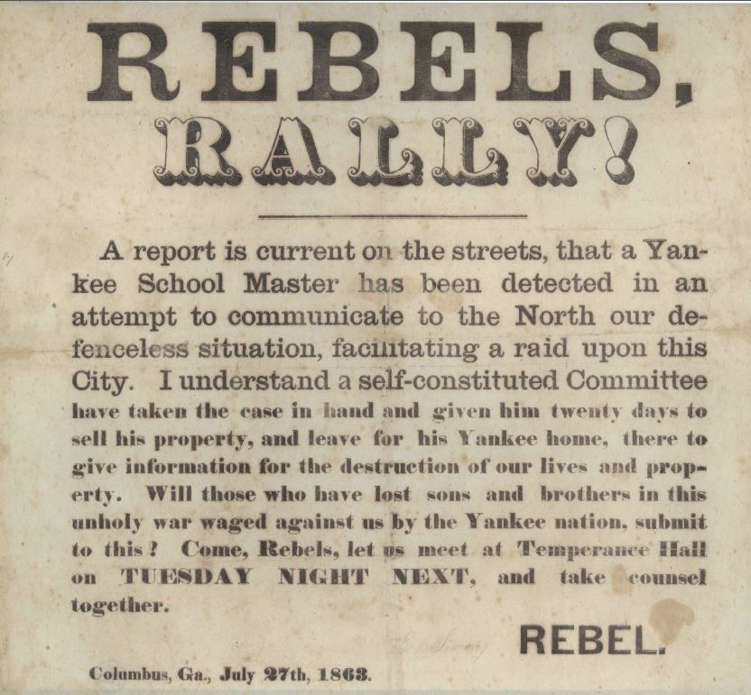 A warning to the citizens of Columbus, GA about an impending raid.